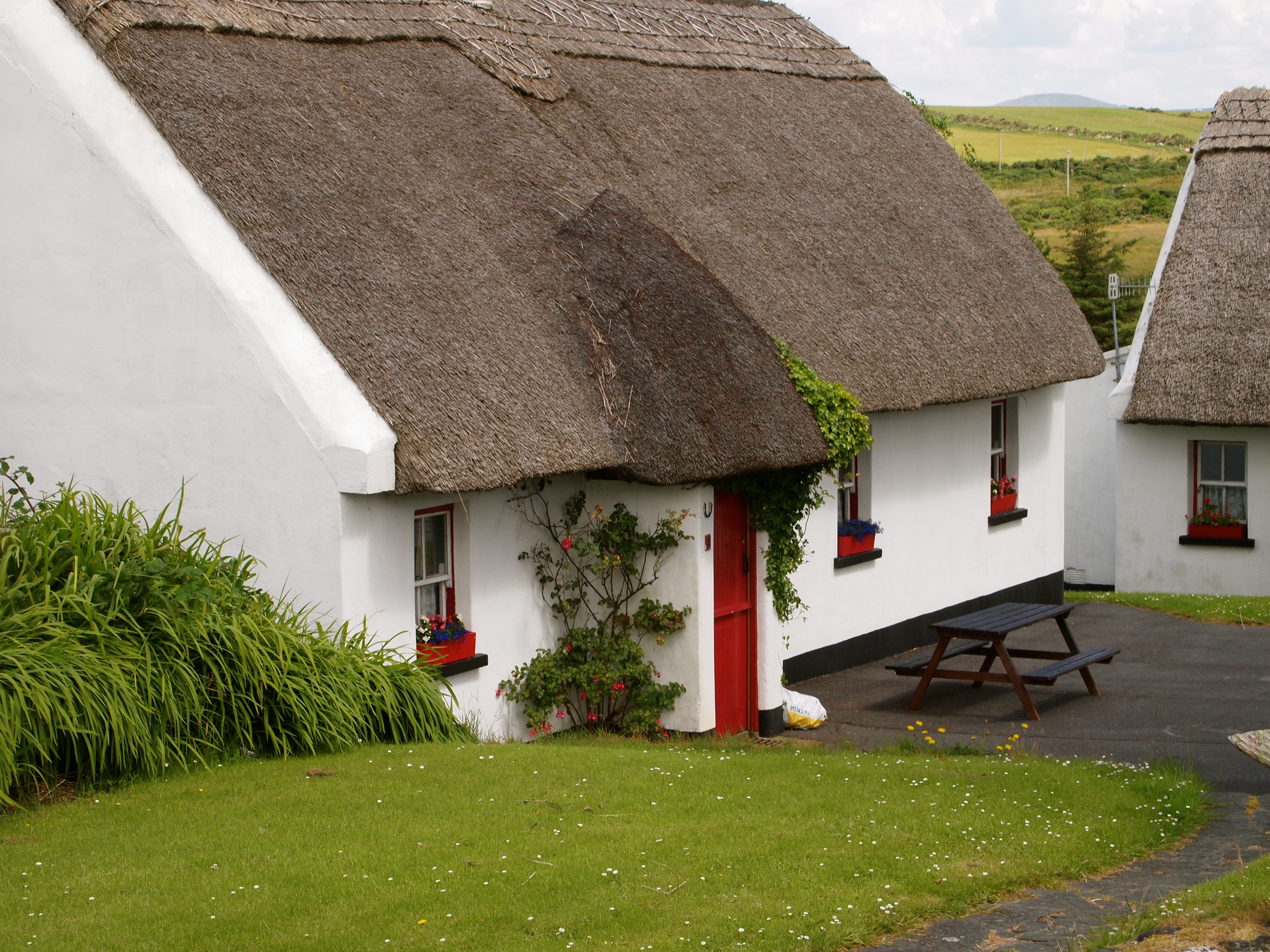 Thatched cottage at Tully Cross, Renvyle, Connemara, Ireland